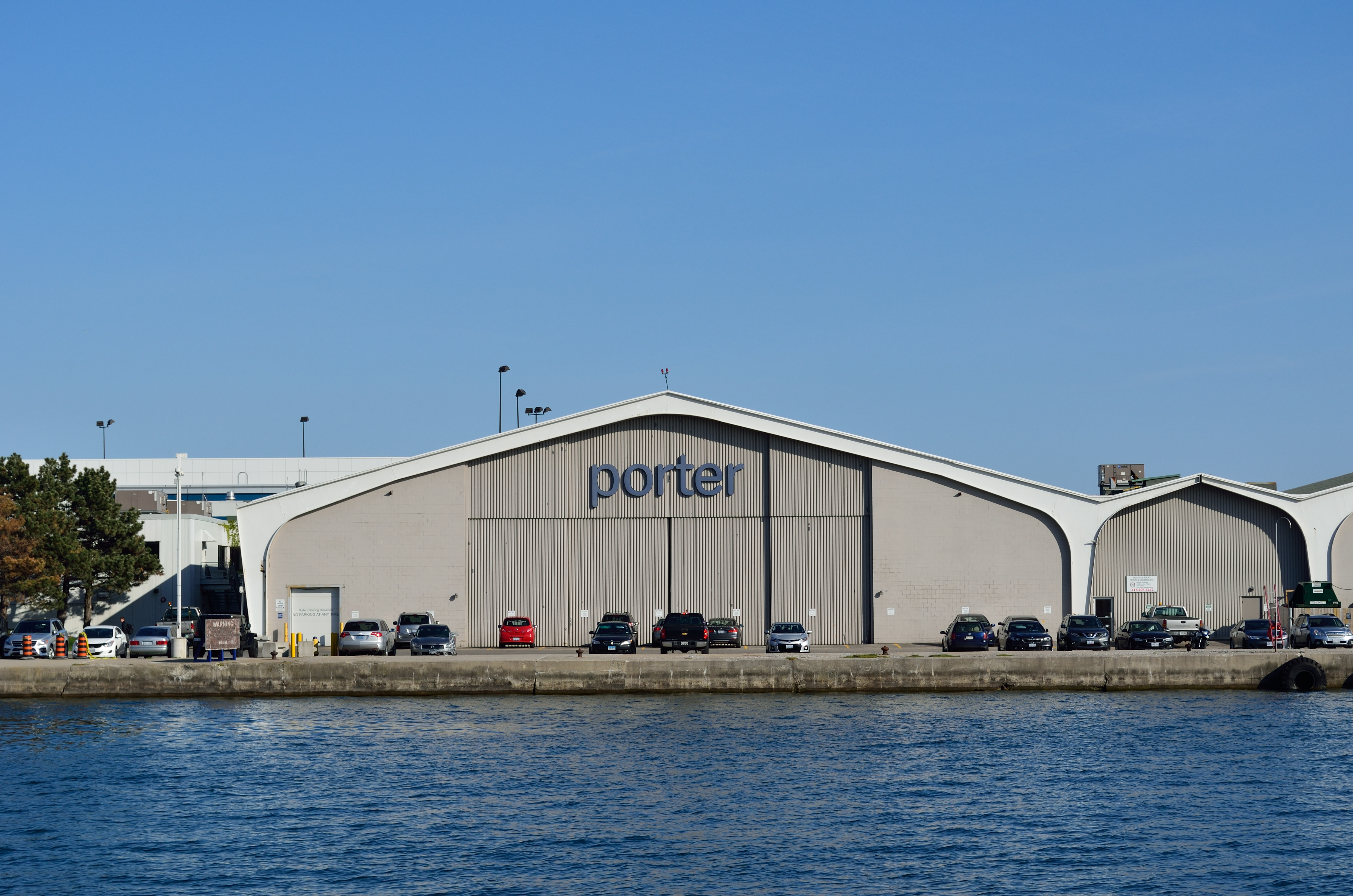 Porter Airlines Building at Billy Bishop Toronto City Airport